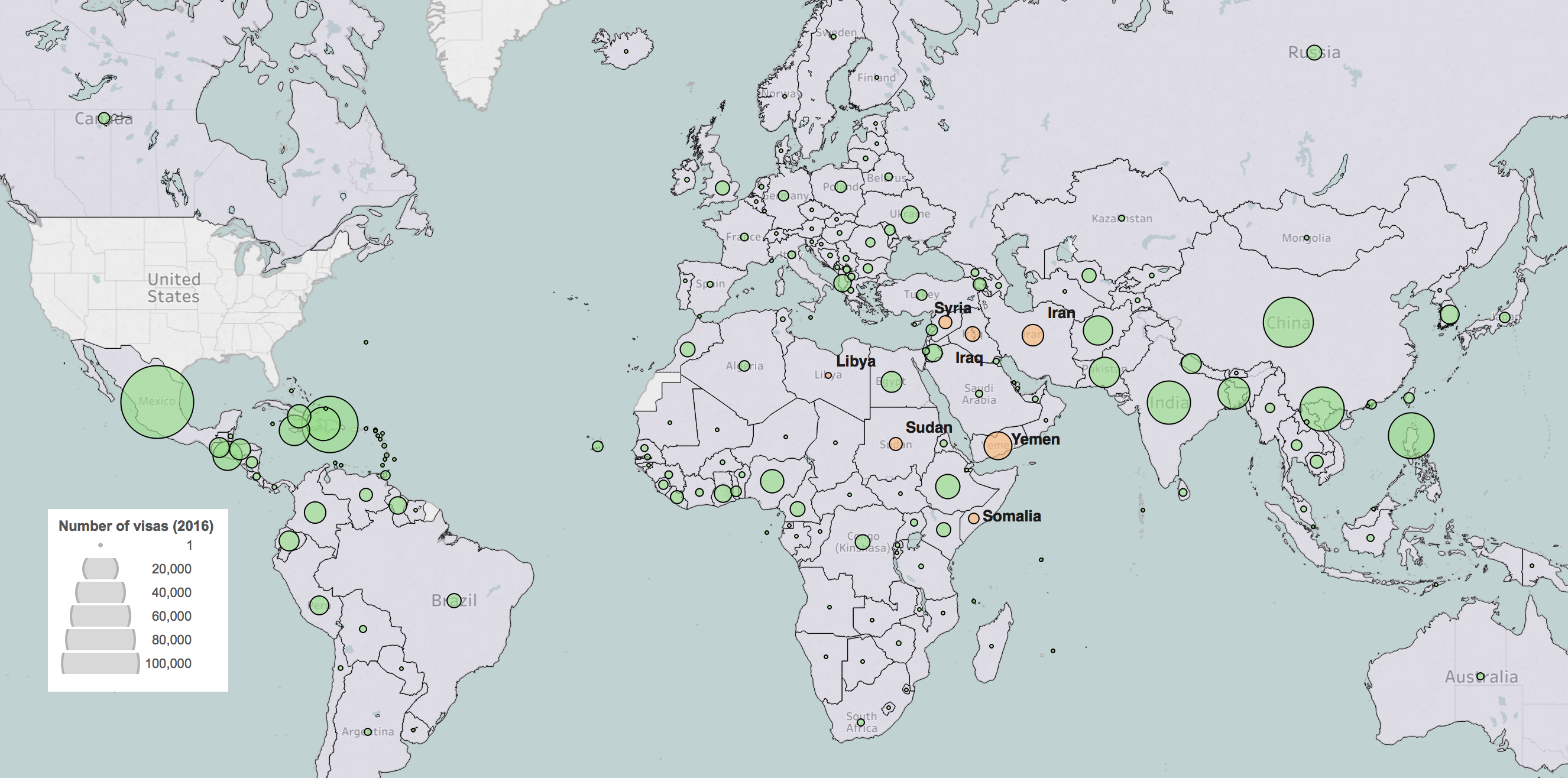 World map showing number of visas issued in 2016 by country, highlighting Iraq, Iran, Libya, Somalia, Sudan, Syria and Yemen, where immigration was excluded by Executive Order "Protecting the Nation from Foreign Terrorist Entry into the United States". Source: Report of the Visa Office 2016. Bureau of Consular Affairs, U.S. Department of State.